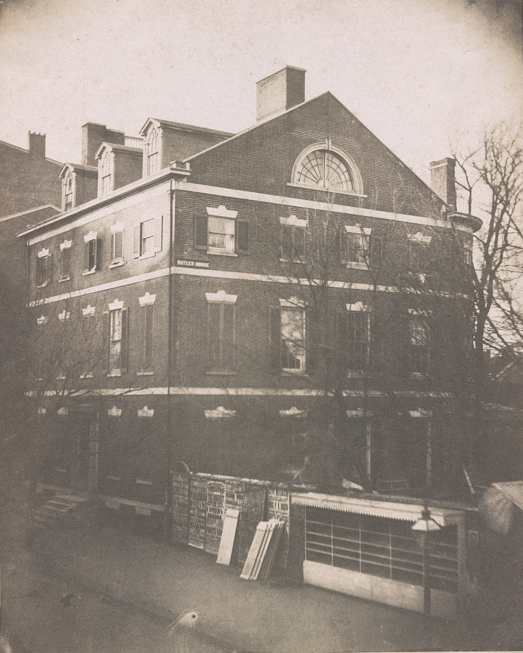 Butler House, northwest corner 8th & Chestnut Streets, Philadelphia, Pennsylvania.